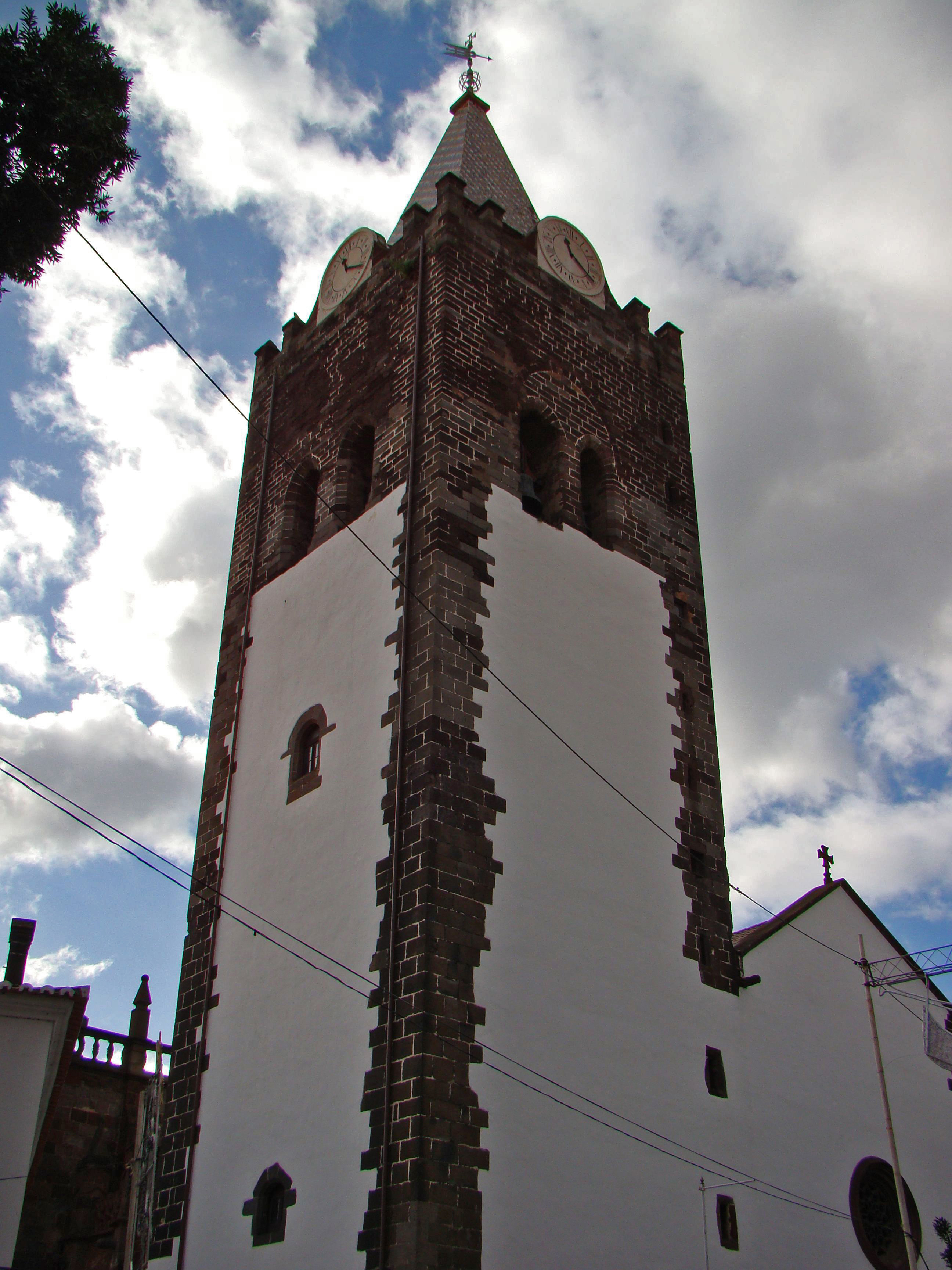 Madeira church